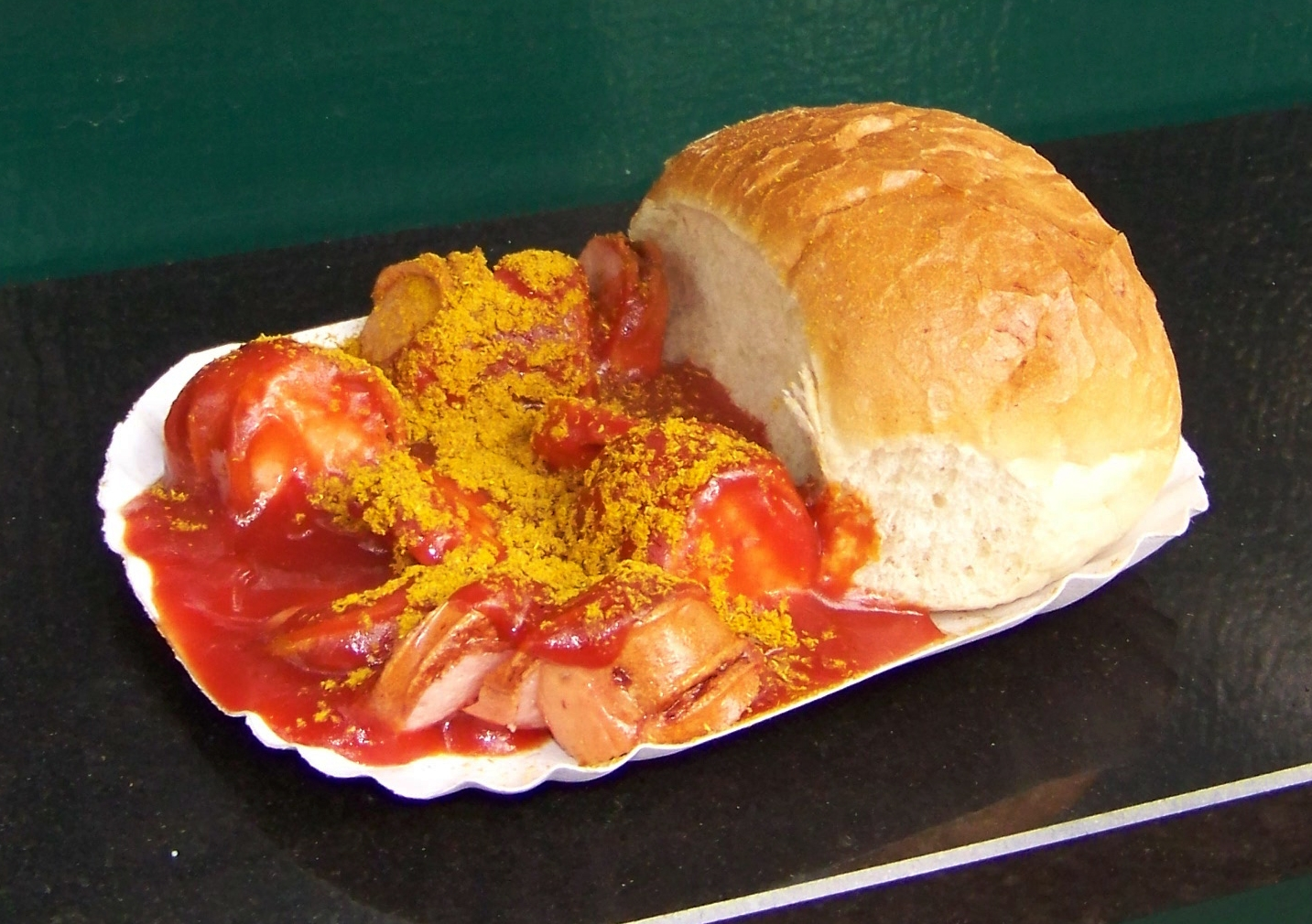 Currywurst sold just steps away from the Brandenburg Gate in Berlin